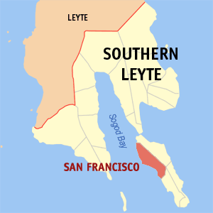 Map of Southern Leyte showing the location of San Francisco